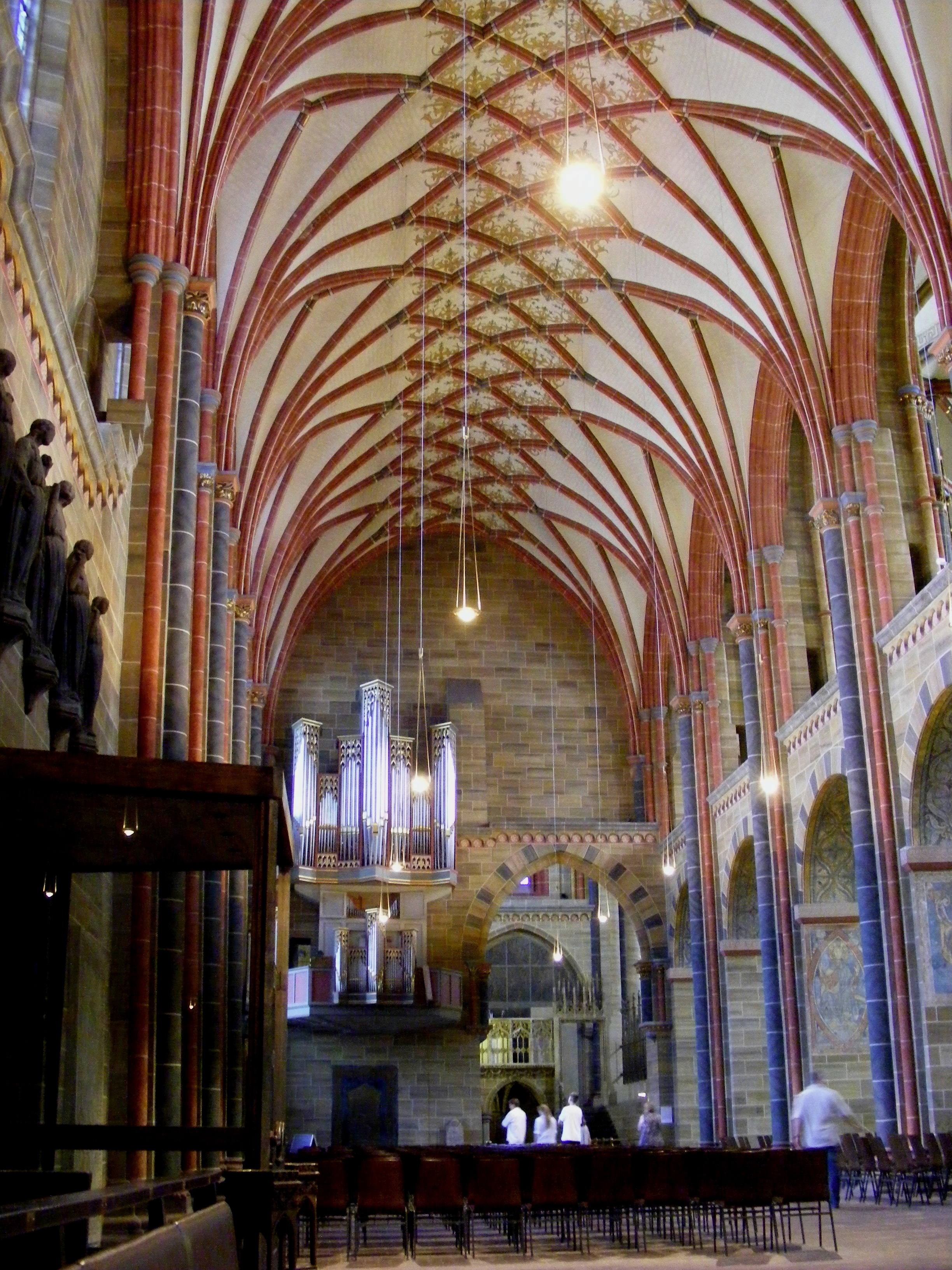 Bremen Cathedral, eastward view of the late gothic northern aisle, Bach's organ